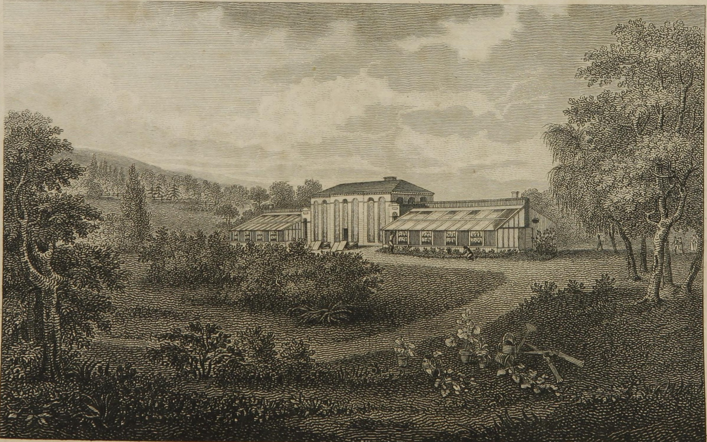 Engraving, circa 1811, of a drawing by Reinagle of Elgin Botanic Garden, titled View of the Botanic Garden of the State of New-York, from the Hortus Elginensis catalog (1811) by David Hosack, M.D.